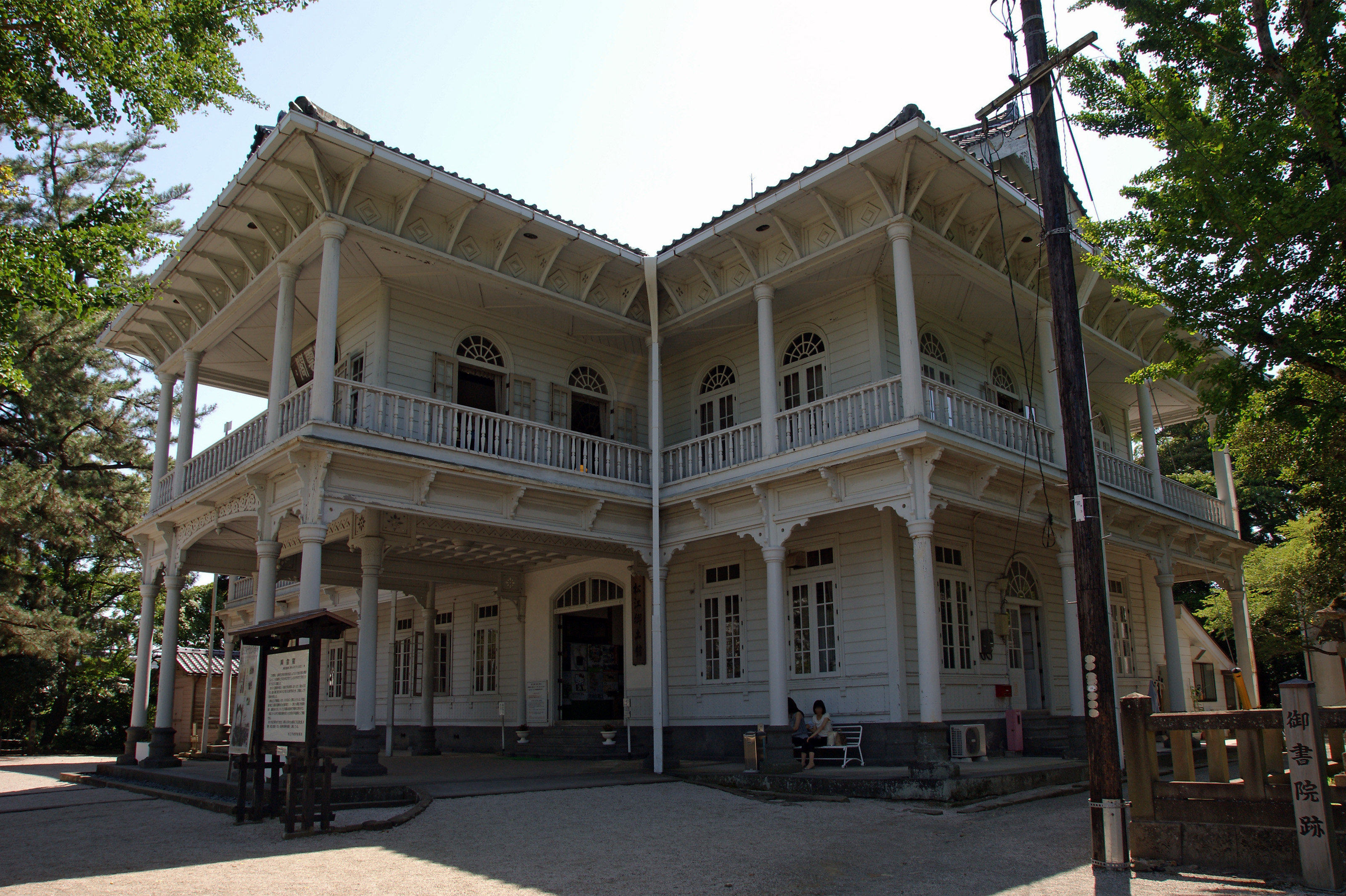 Kounkaku in Matsue, Shimane prefecture, Japan